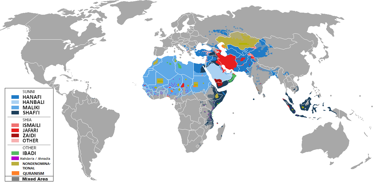 Self-reported Muslim affiliation by region